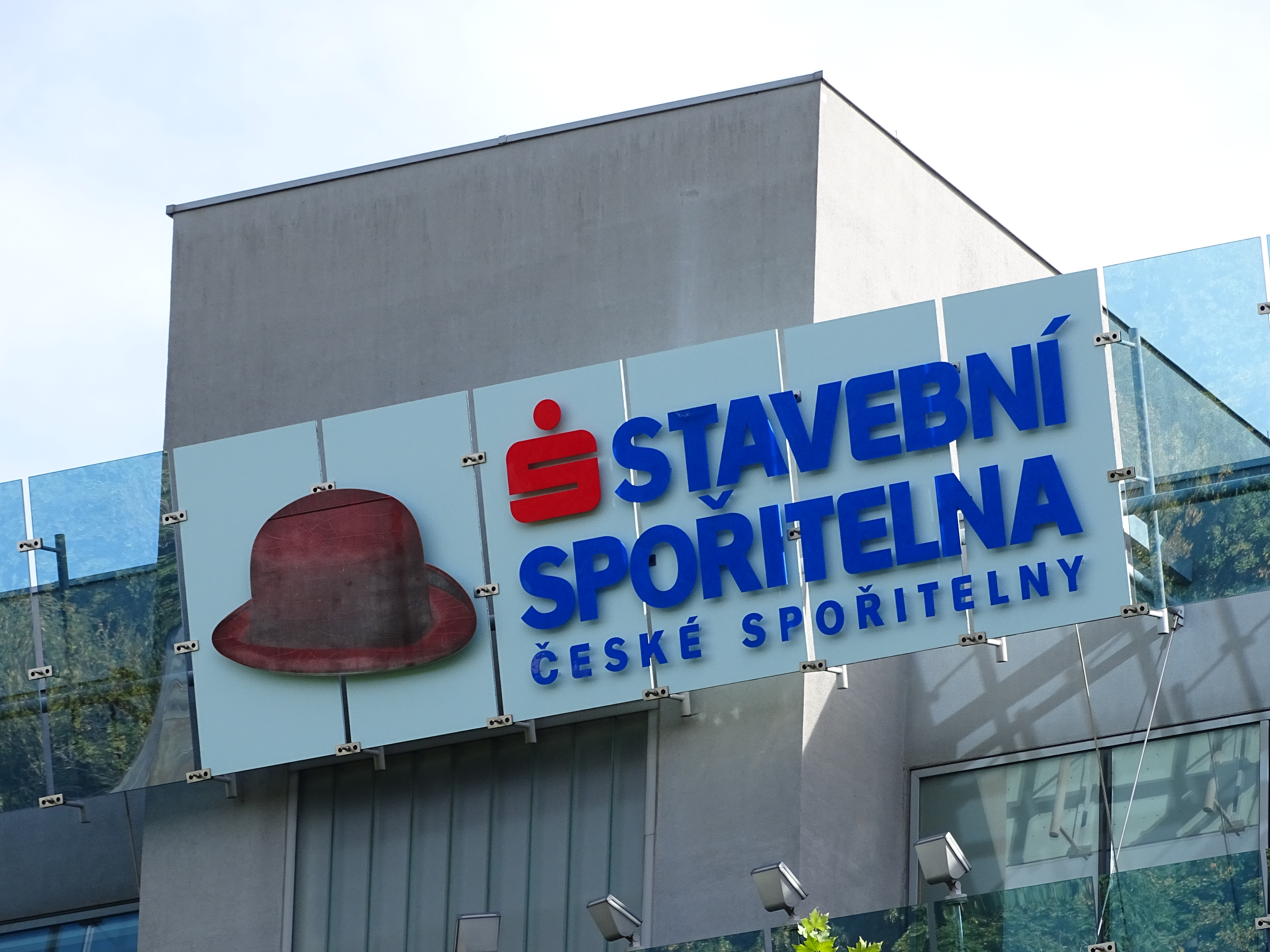 Prague-Vinohrady, Czech Republic. Vinohradská 1632/180, Buřinka bank.